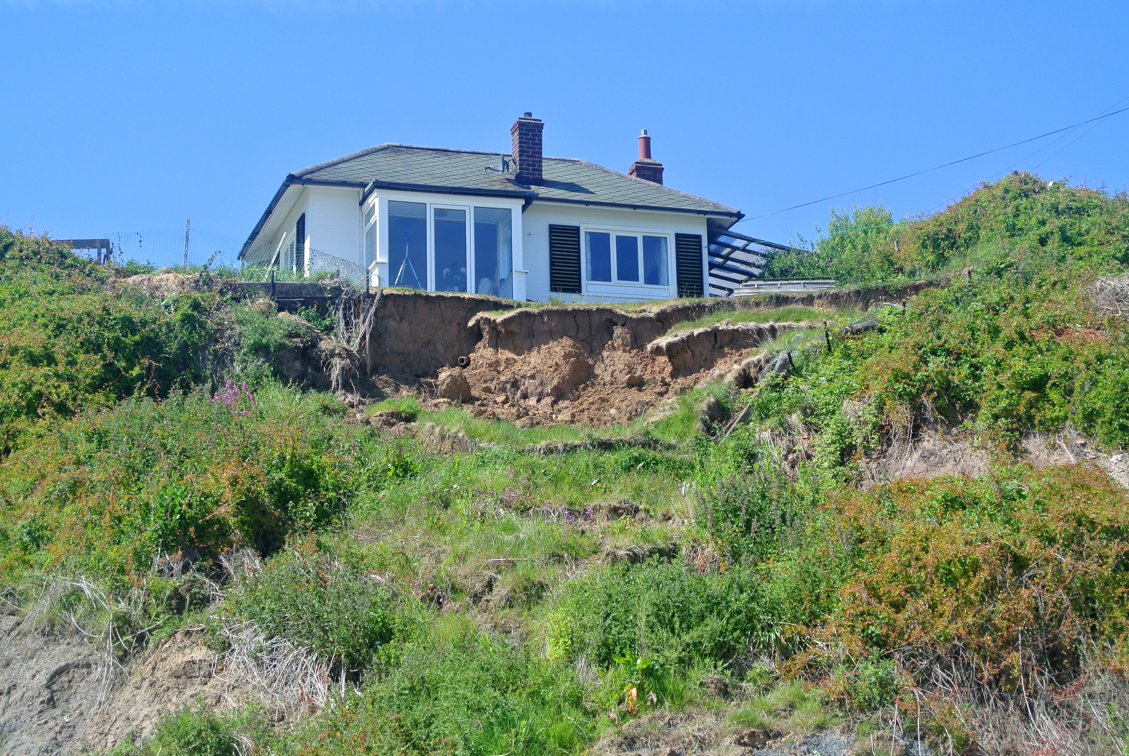 Erosion of the Boulder Clay (Pleistocene) along cliffs of Filey Bay, Yorkshire, England.